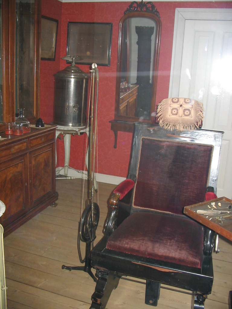 Dental history: dentist's office in the 19. century